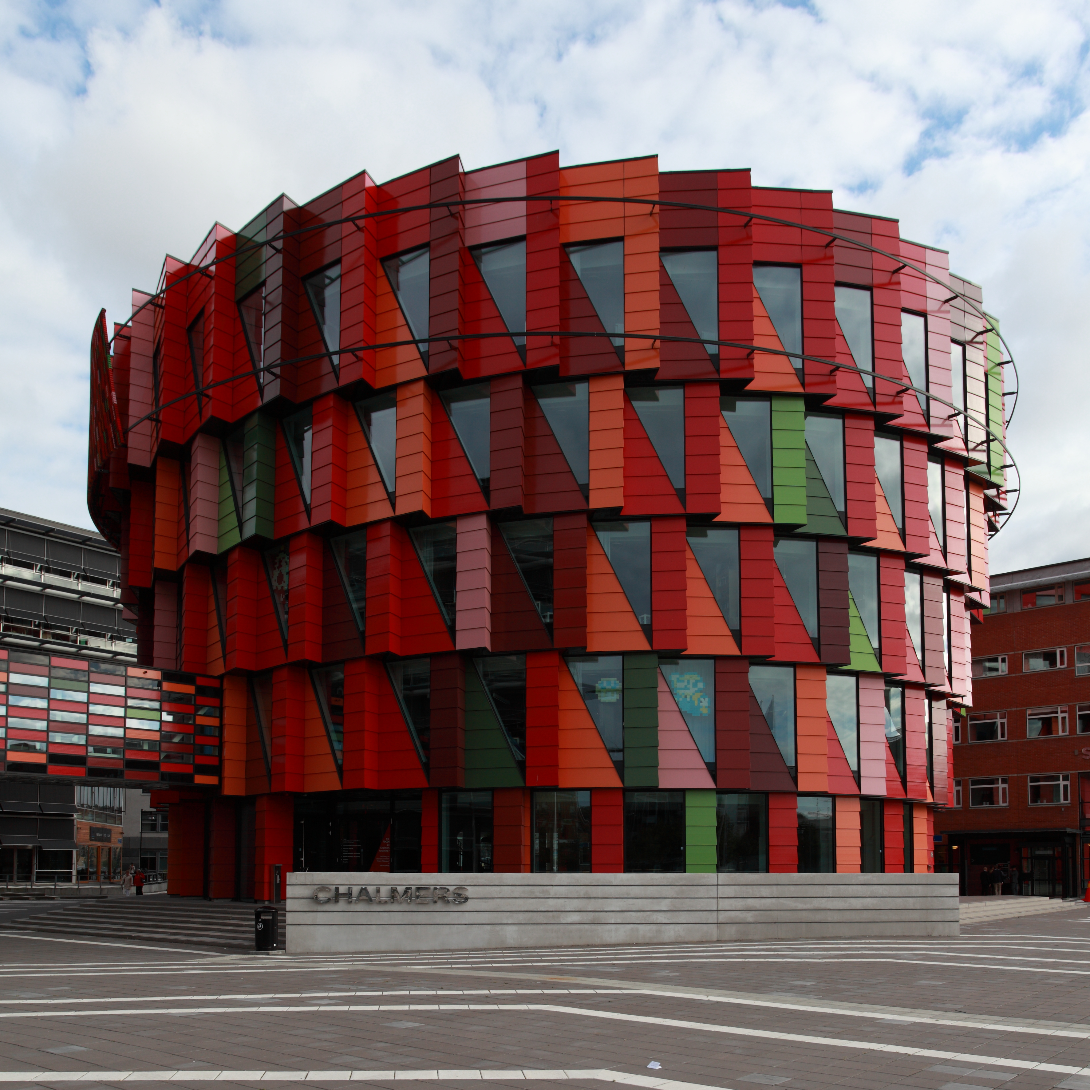 "Kuggen", famous-ish building at Chalmers Lindholmen.